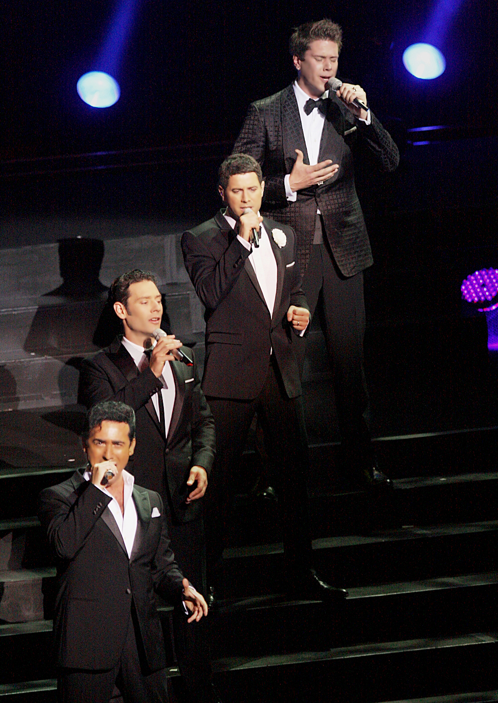 Il Divo Orchestra in Concert Tour 2012 in Sydney.